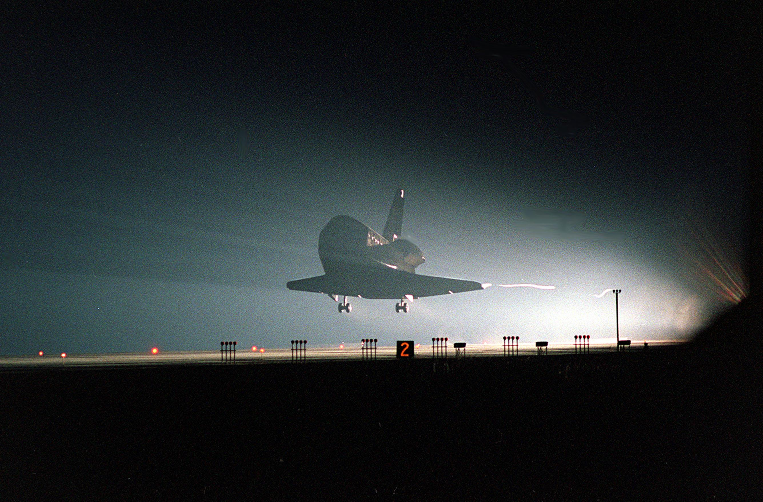 At KSC's Shuttle Landing Facility, the lights on Runway 15 reveal Space Shuttle Atlantis as it nears touchdown, completing the 9-day, 20-hour, 9-minute-long STS-101 mission. At the controls are Commander James D. Halsell Jr. and Pilot Scott "Doc" Horowitz. Also onboard the orbiter are Mission Specialists Mary Ellen Weber, James S. Voss, Jeffrey N. Williams, Susan J. Helms and Yury Usachev of Russia. The crew is returning from the third flight to the International Space Station. This was the 98th flight in the Space Shuttle program and the 21st for Atlantis, also marking the 51st landing at KSC, the 22nd consecutive landing at KSC, the 14th nighttime landing in Shuttle history and the 29th in the last 30 Shuttle flights. Main gear touchdown was at 2:20:17 a.m. EDT May 29 , landing on orbit 155 of the mission. Nose gear touchdown was at 2:20:30 a.m. EDT, and wheel stop at 2:21:19 a.m. EDT.